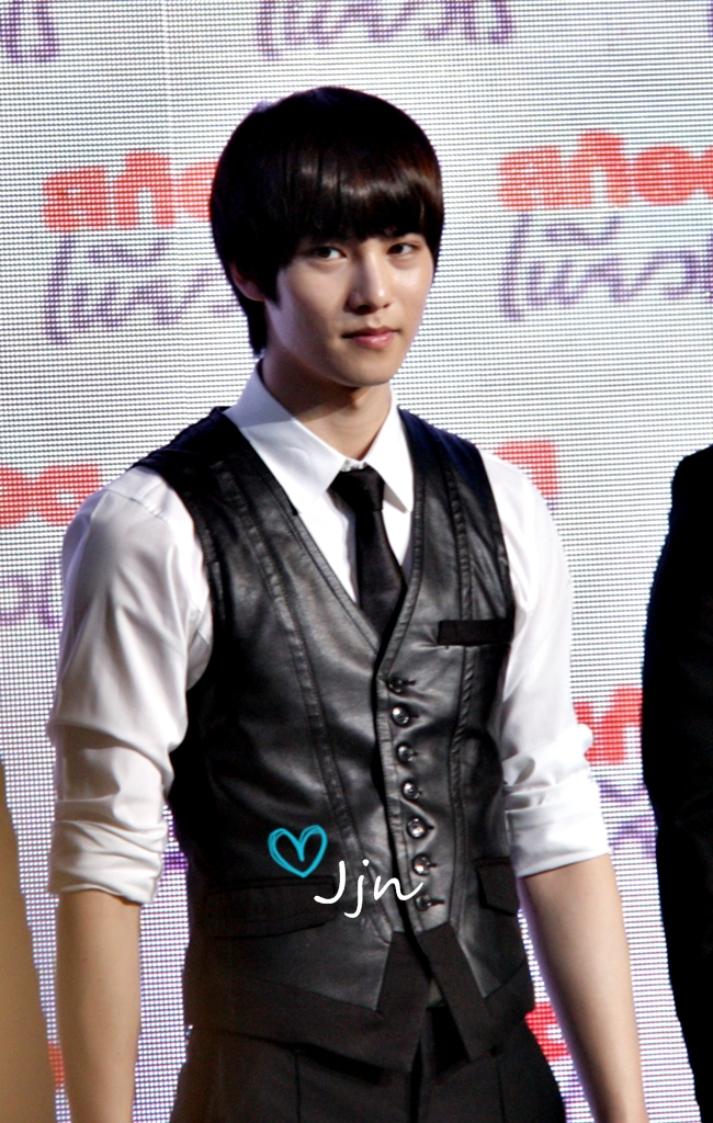 Guitarist and Vocalist Lee Jong-hyun from Korean band, CNBLUE